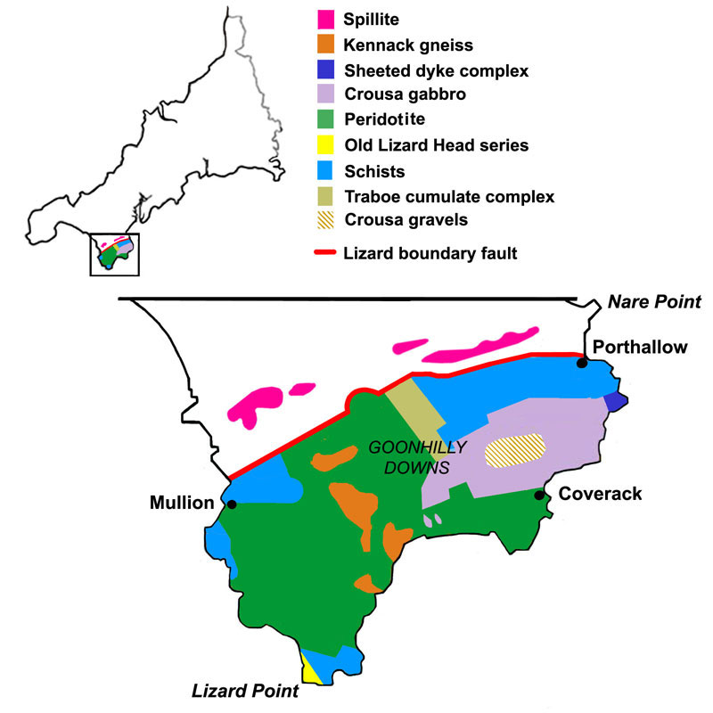 Simplified sketch map of the geology of The Lizard, Cornwall